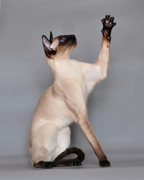 Atual Siamese cat Meekahoo Vaillante Grand (Meekahoo cattery), born: 06.04.2010